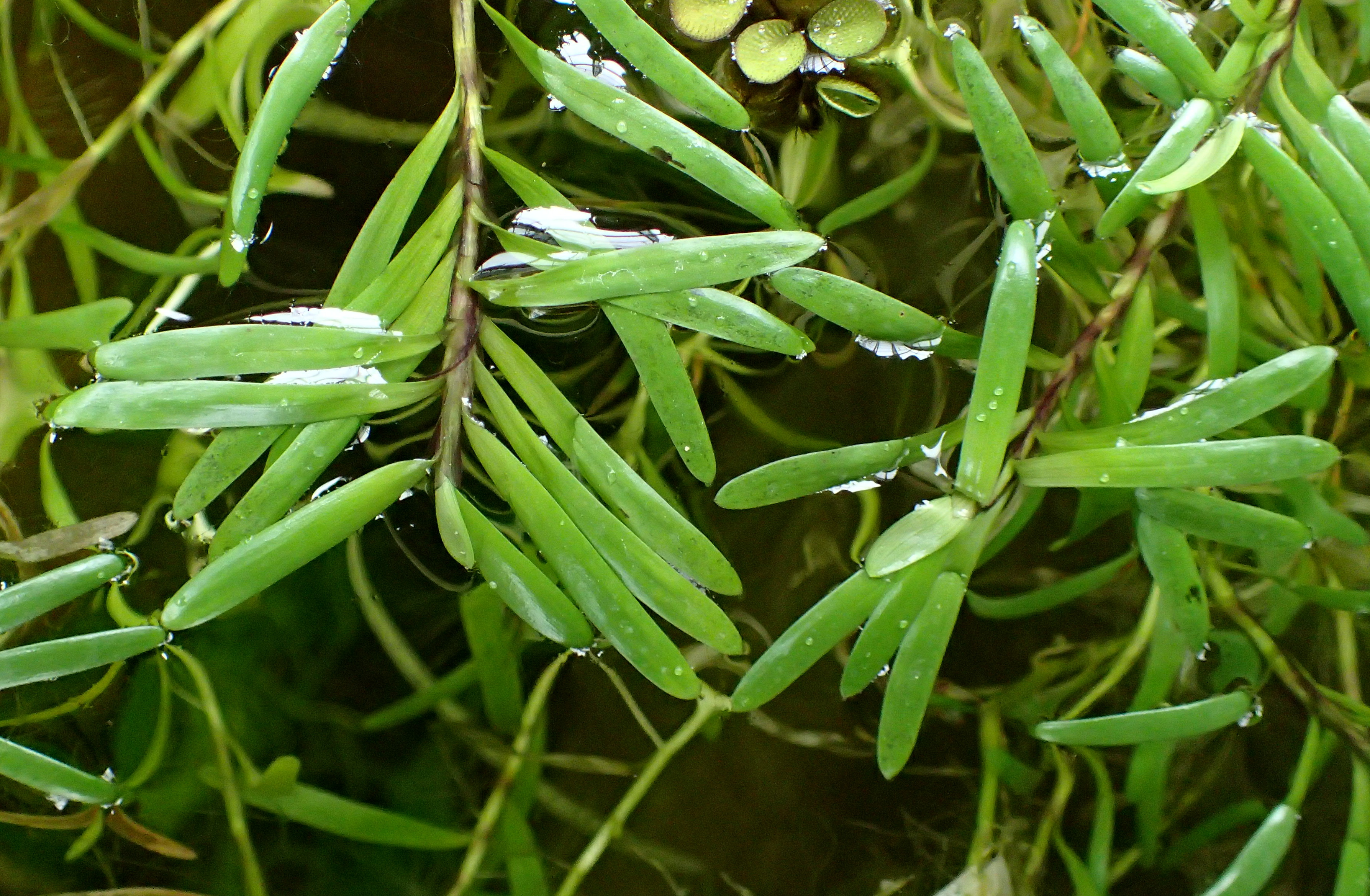 Heteranthera zosterifolia in Wrocław University Botanical Garden